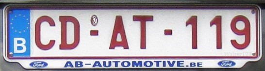 2010 belgian diplomatic license plate